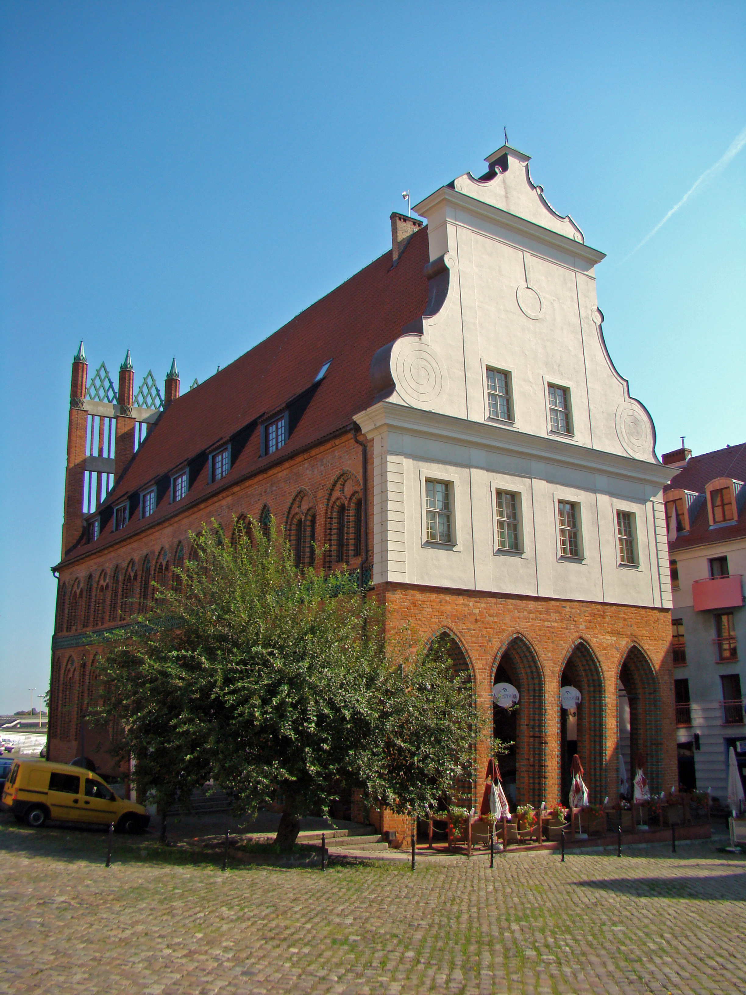 Town hall in Szczecin